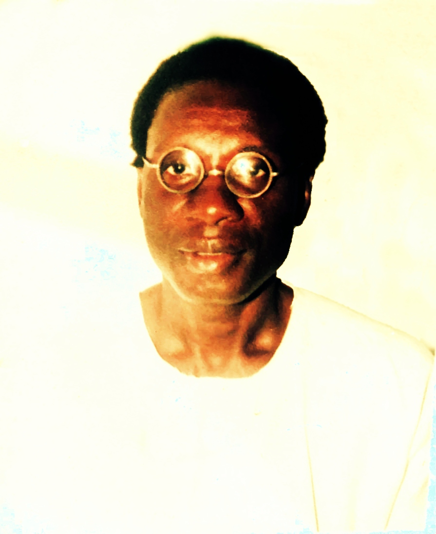 Photo of Late Prof. Claude Ake